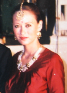 John Fleming and Julia Nickson-Soul on the set of the 1989 BBC TV miniseries Around the World in 80 Days.